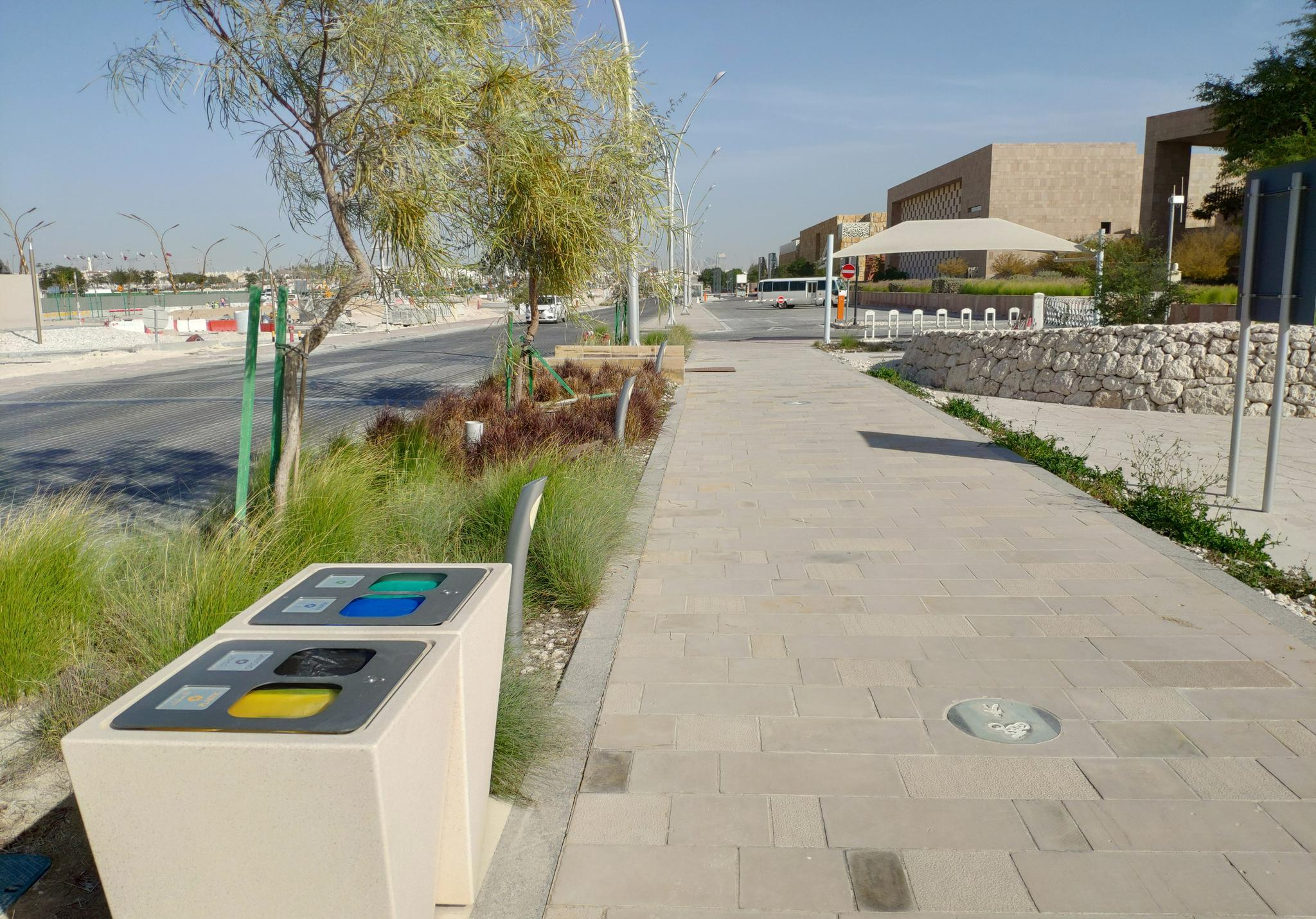 Sidewalk near Georgetown University in Qatar. Located in a portion of Education City falling within Al Shagub district.